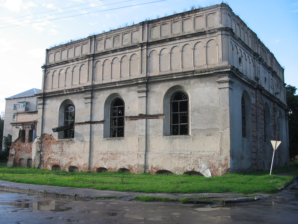 Synagogue ruins in Brody, western Ukraine